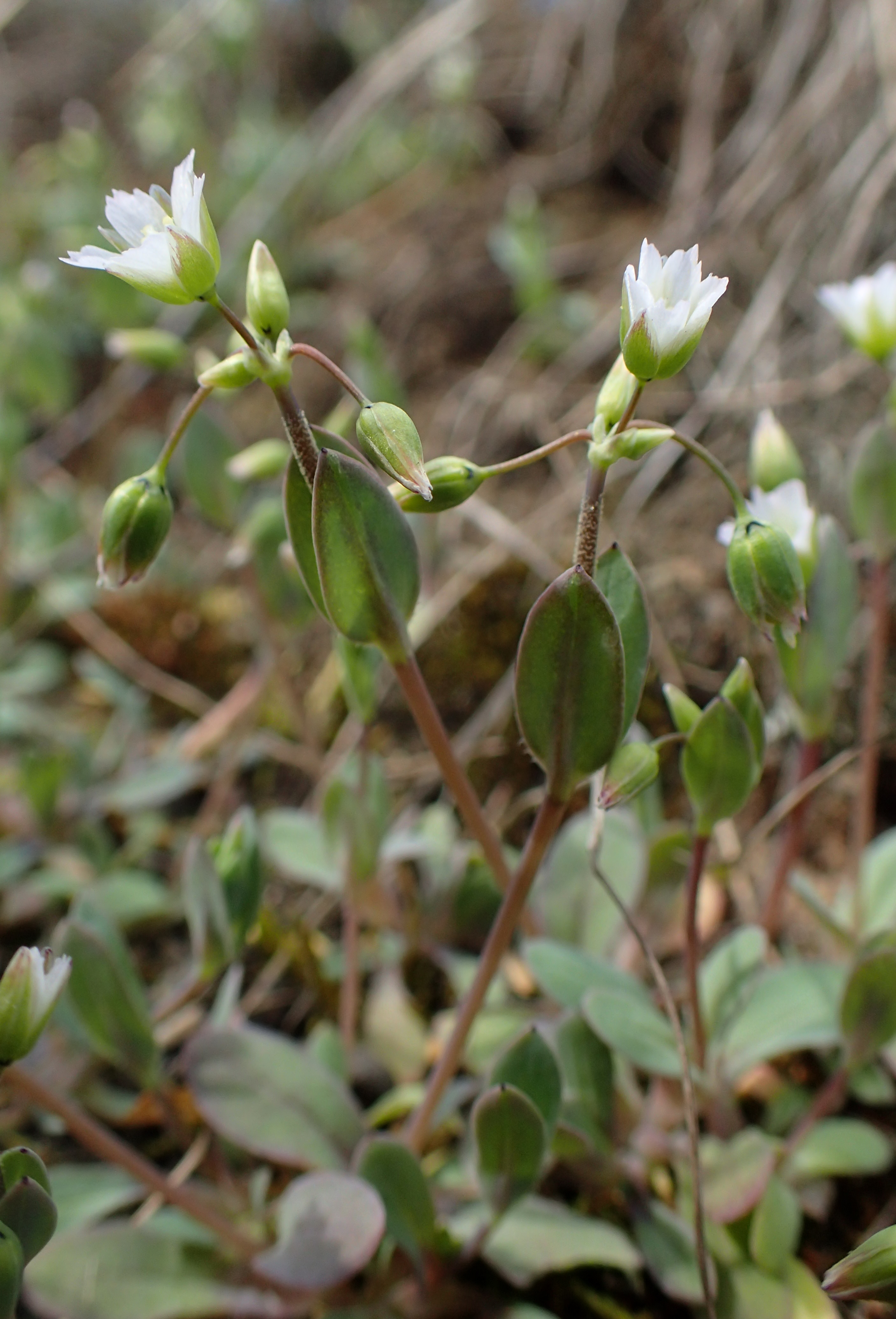 Holosteum umbellatum near Gryfino, NW Poland